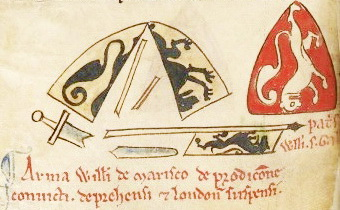 The broken sword, standart and shield with the arms of William de Marisco, referring to his execution in 1242, and a drawing of an inverted shield with the arms of Arundel for the death of Hugh d'Aubigny, 5th Earl of Arundel, in 1243. (British Library, Royal 14 C VII f. 133v)